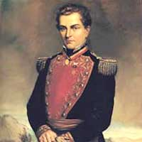 This work is in the public domain in its country of origin and other countries and areas where the copyright term is the author's life plus 70 years or fewer. You must also include a United States public domain tag to indicate why this work is in the public domain in the United States. Note that a few countries have copyright terms longer than 70 years: Mexico has 100 years, Jamaica has 95 years, Colombia has 80 years, and Guatemala and Samoa have 75 years. This image may not be in the public domain in these countries, which moreover do not implement the rule of the shorter term. Côte d'Ivoire has a general copyright term of 99 years and Honduras has 75 years, but they do implement the rule of the shorter term. Copyright may extend on works created by French who died for France in World War II (more information), Russians who served in the Eastern Front of World War II (known as the Great Patriotic War in Russia) and posthumously rehabilitated victims of Soviet repressions (more information). This file has been identified as being free of known restrictions under copyright law, including all related and neighboring rights. Santiago Mariño (n en Valle del Espíritu Santo (Nueva Esparta) el 25 de julio de 1788 - m en La Victoria (Aragua) el 4 de septiembre de 1854) fue uno de los próceres de la Independencia de Venezuela. Nativo del Oriente del país, se convirtió en un gran caudillo de esa zona.